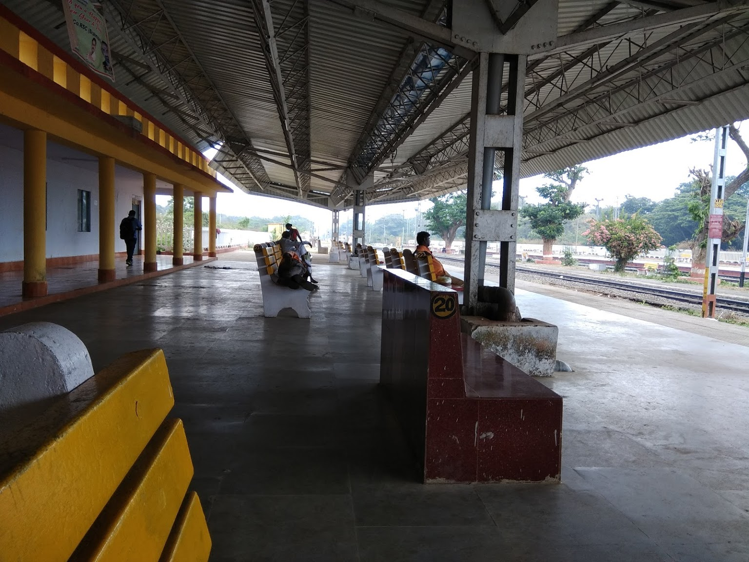 This is the Picture of Chilka railway station